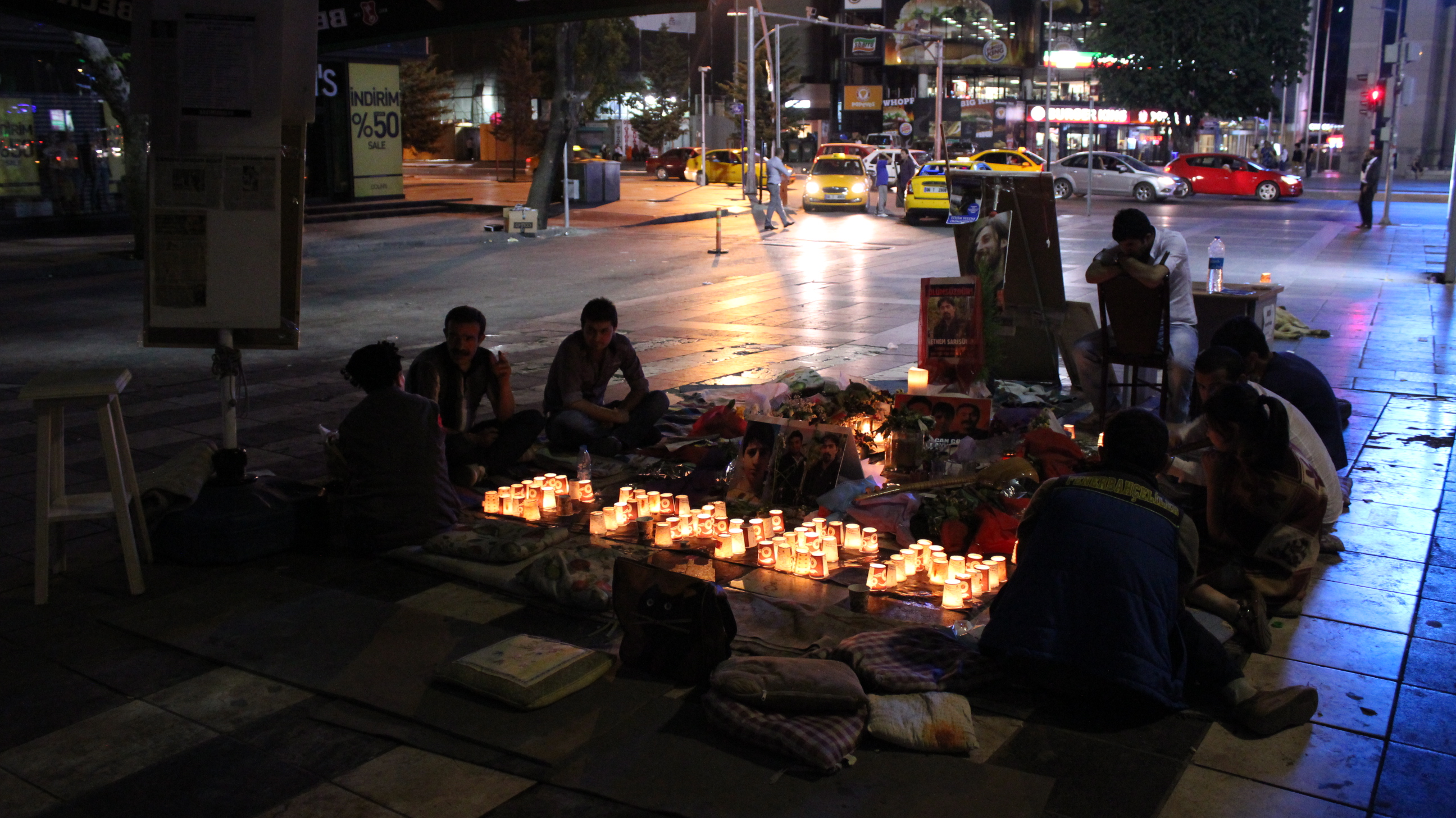 Place where Ethem Sarısülük was killed at anti-government protests in June 2013.